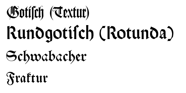 Overview on several blackletter typefaces